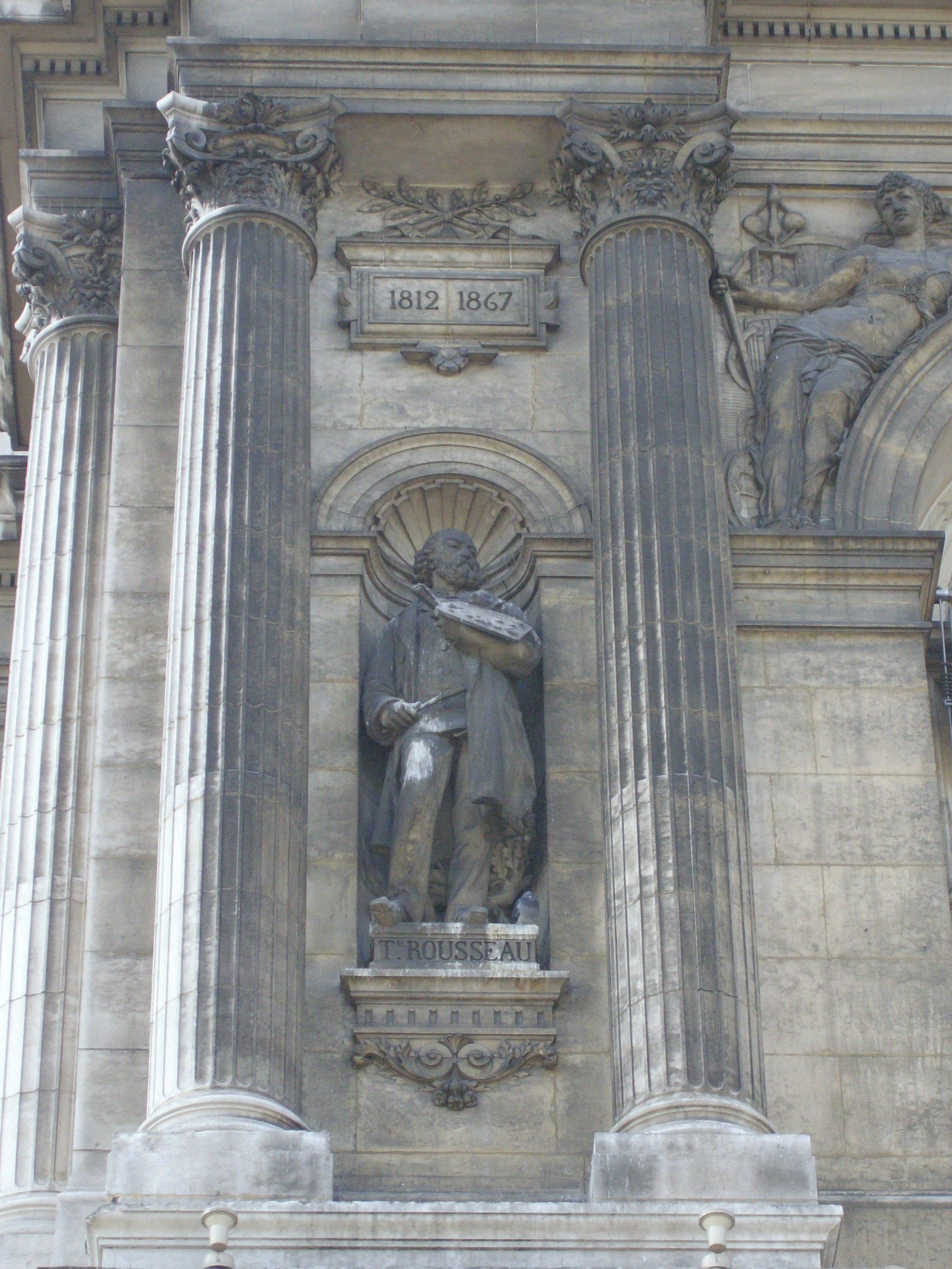 Statue of Théodore Rousseau, City Hall in Paris, France